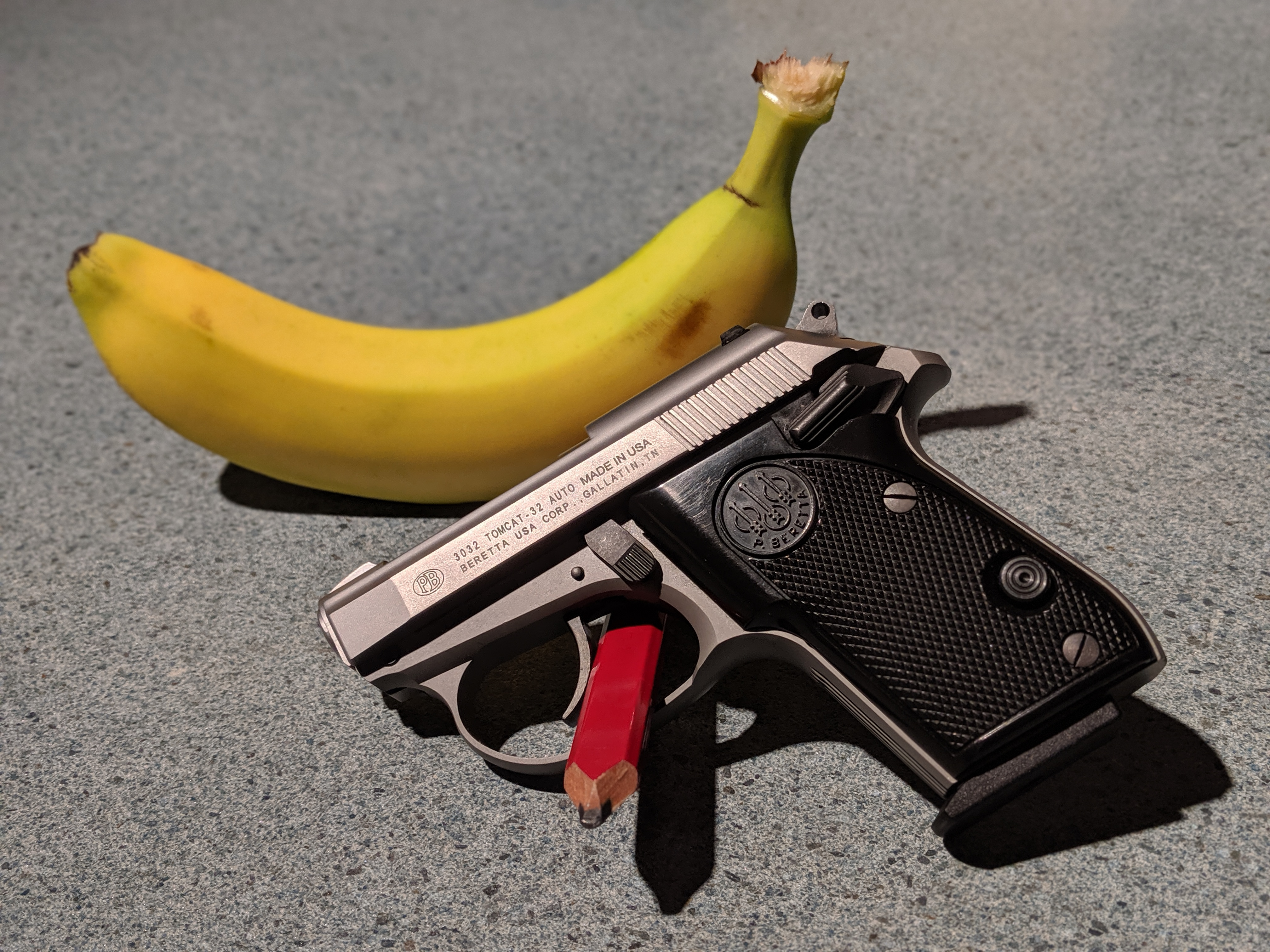 The "Inox" model of this Beretta .32 ACP pistol denotes it is stainless steel. Shown here with a banana for scale